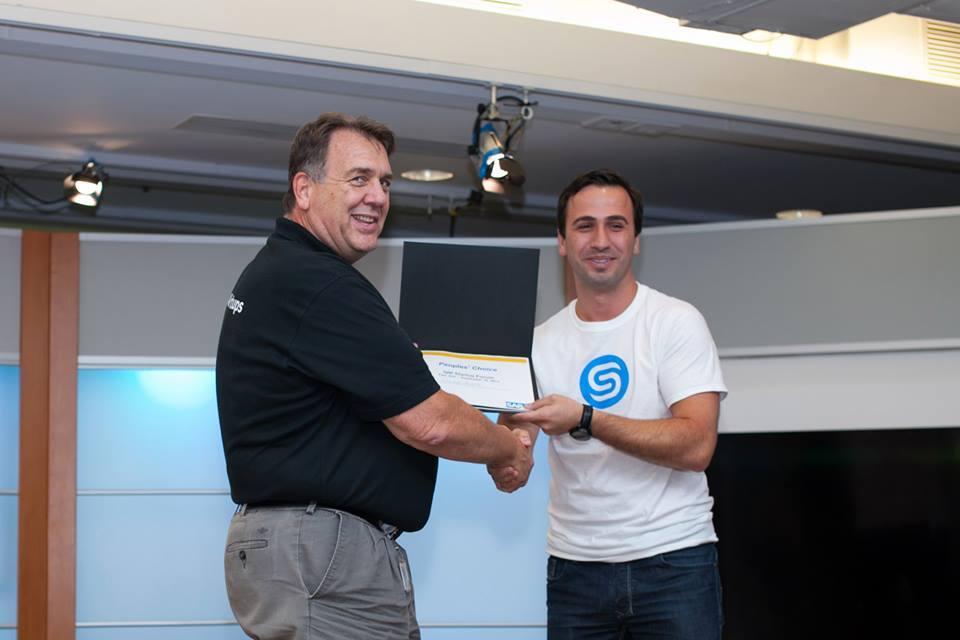 Solaborate wins "People's Choice Award" at SAP Startup Forum, Palo Alto